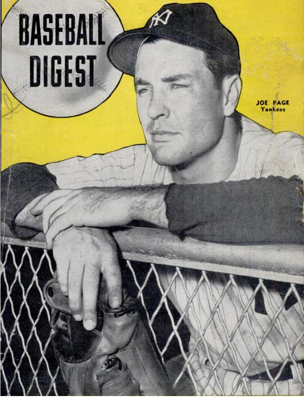 An image of Major League Baseball pitcher Joe Page.